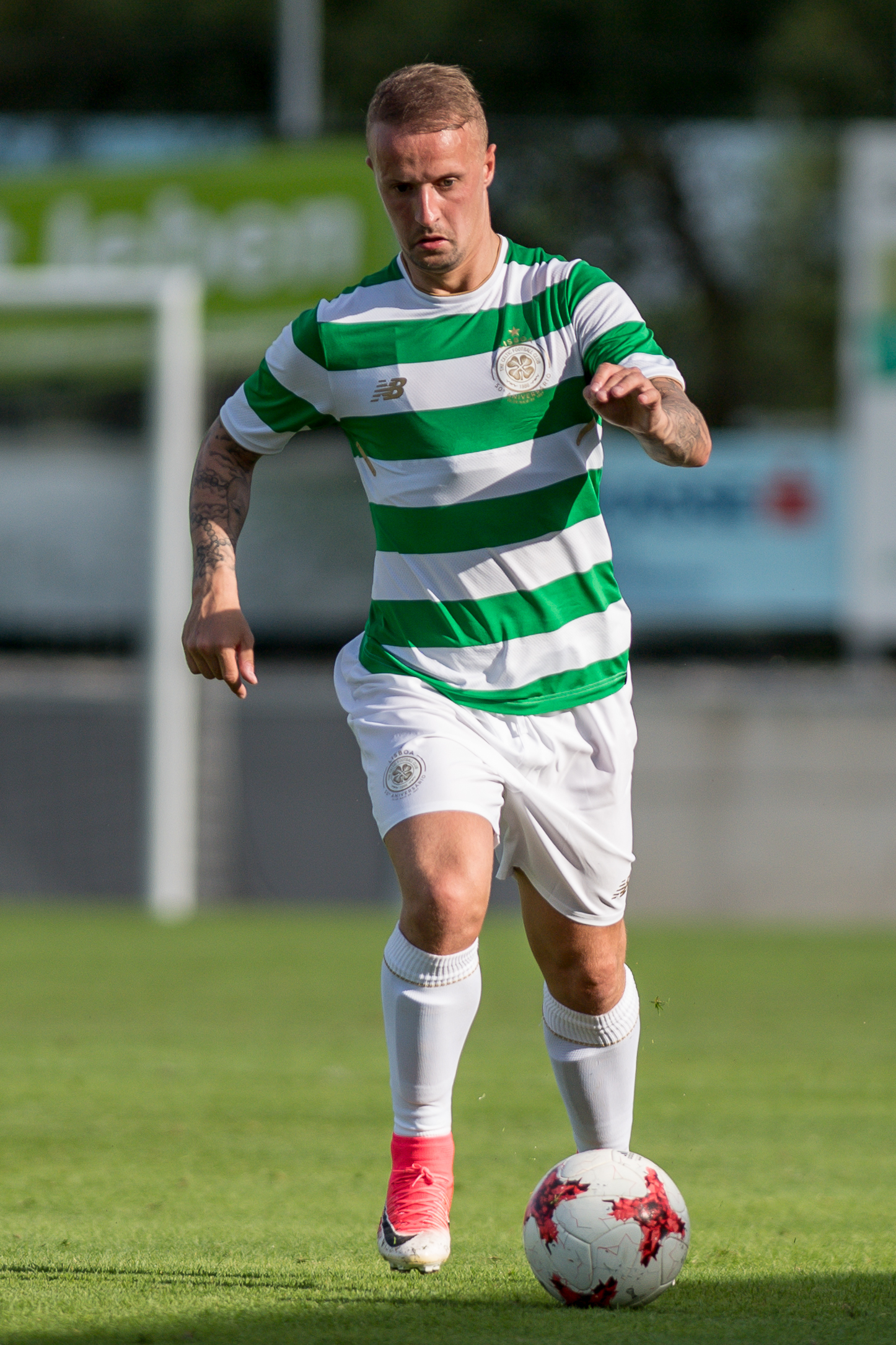 1/7/2017, Amstetten, Austria, sports, soccer, Tipico Fussball Bundesliga - preparation match SK Rapid Wien vs Celtic Glasgow. Image shows Leigh Griffiths (Celtic FC).